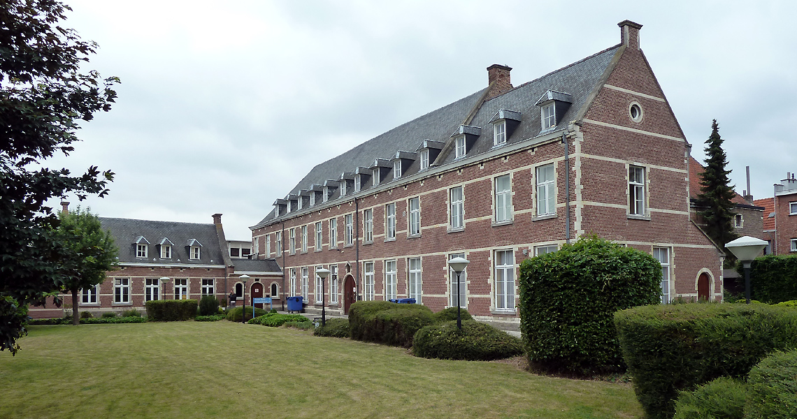 Theresian Convent Tienen